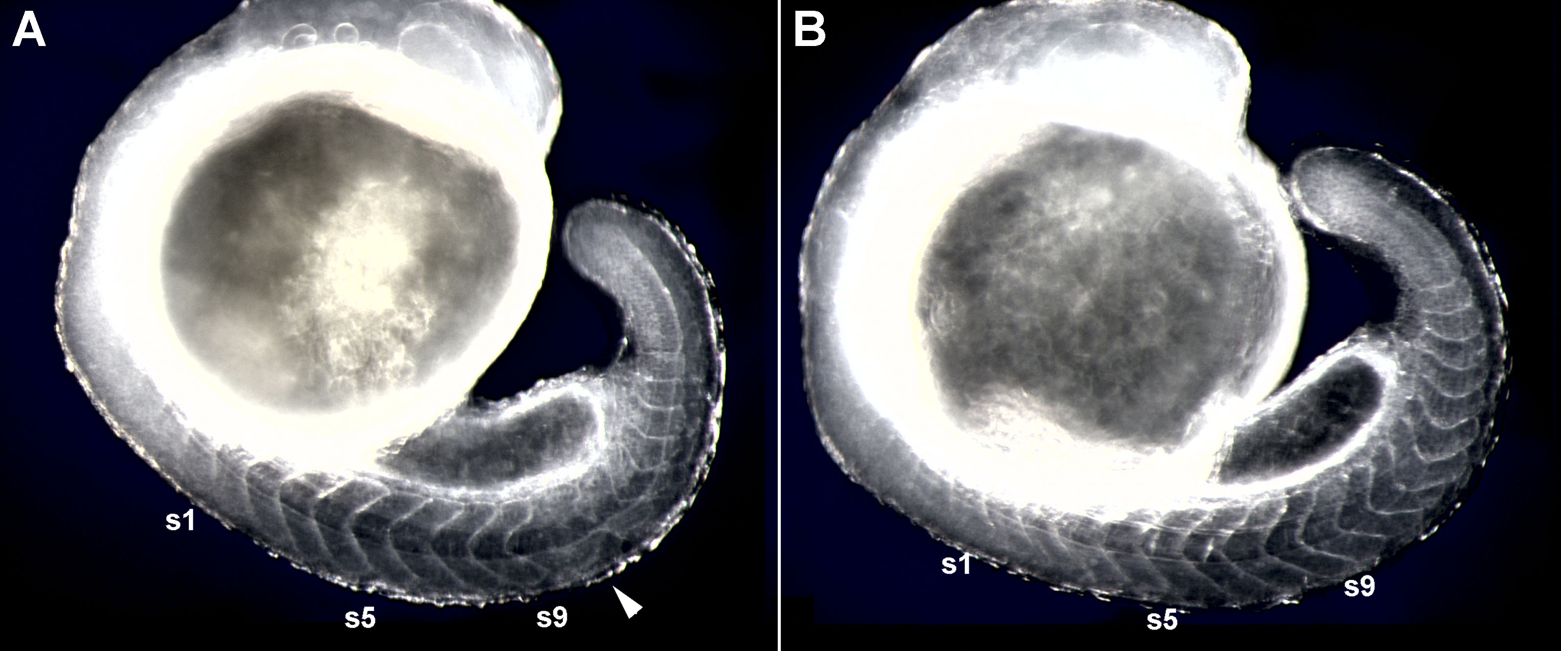 Zebrafish embryos in dark field illumination. Original figure legend: Delayed Somite Segmentation Defects following a Heat-Shock–Induced Pulse of HA-Her7. The photographs show effects of a 60-min heat shock at 37 °C initiated at the five-somite stage, followed by 7 h of recovery at the normal incubation temperature, for (A) an hsp70:HA-her7 transgenic and (B) a wild-type sibling control. In the transgenic, four somites (s6 to s9) have formed normally after the onset of heat shock, but a block of somites subsequent to that has been disrupted (arrowhead). Embryos are lightly fixed, but unstained, and viewed with dark-field illumination.